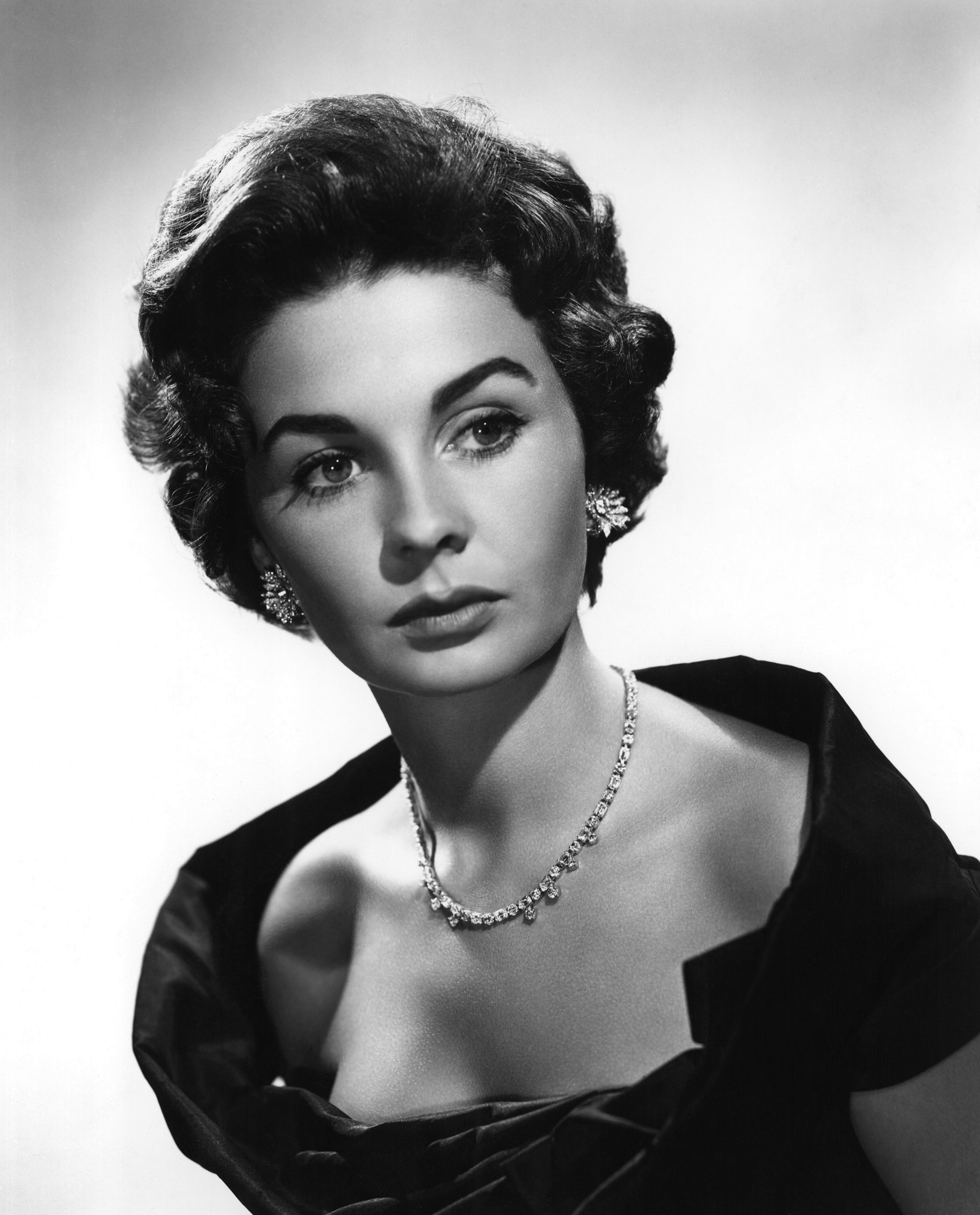 Promotional photograph of actor Jean Simmons (1955)